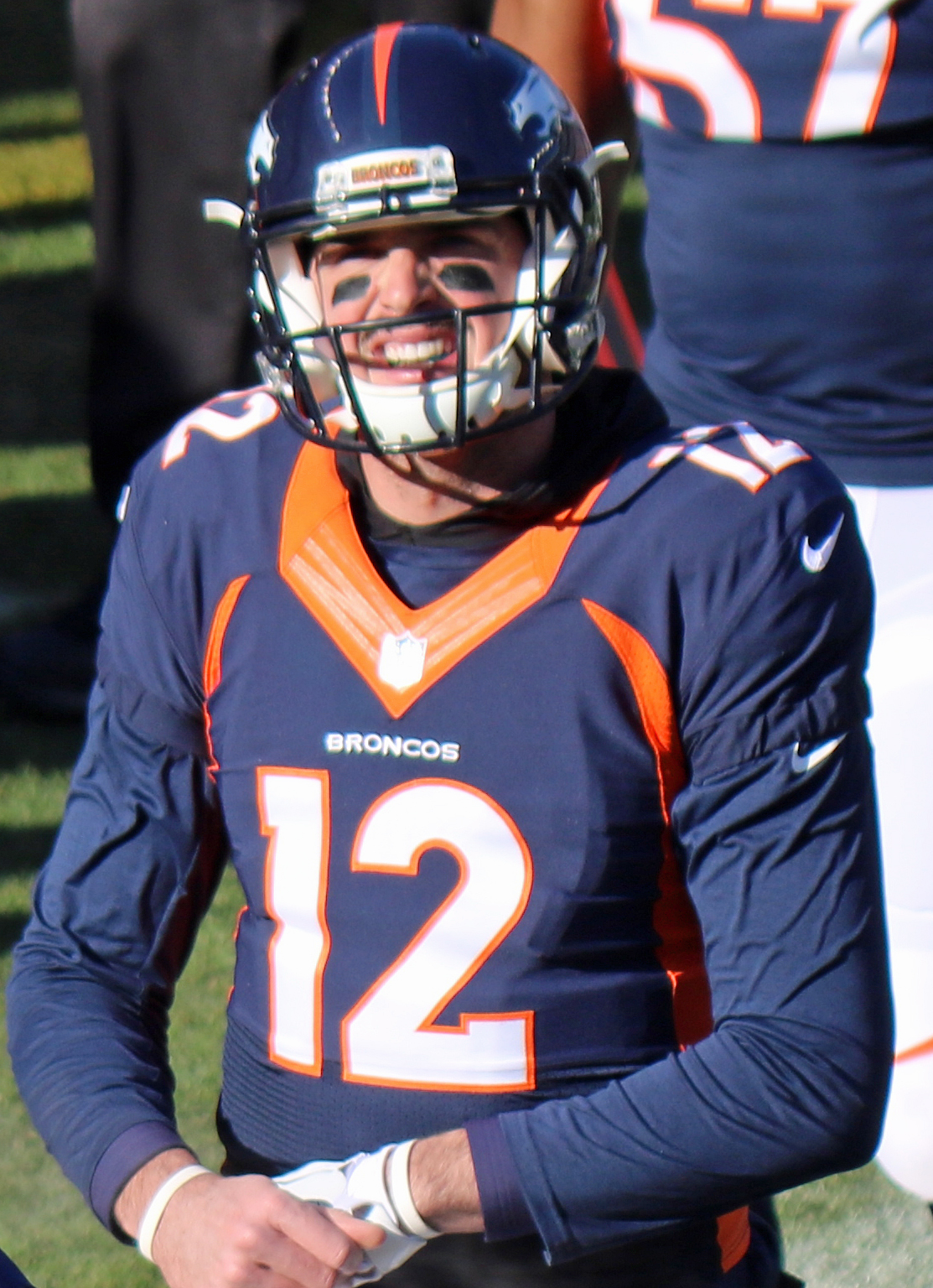 Number 12, quarterback for the Denver Broncos.